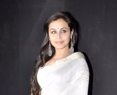 Rani Mukerji at unveiling of Yash Chopra's statue at UTVSTARS' Walk Of The Stars